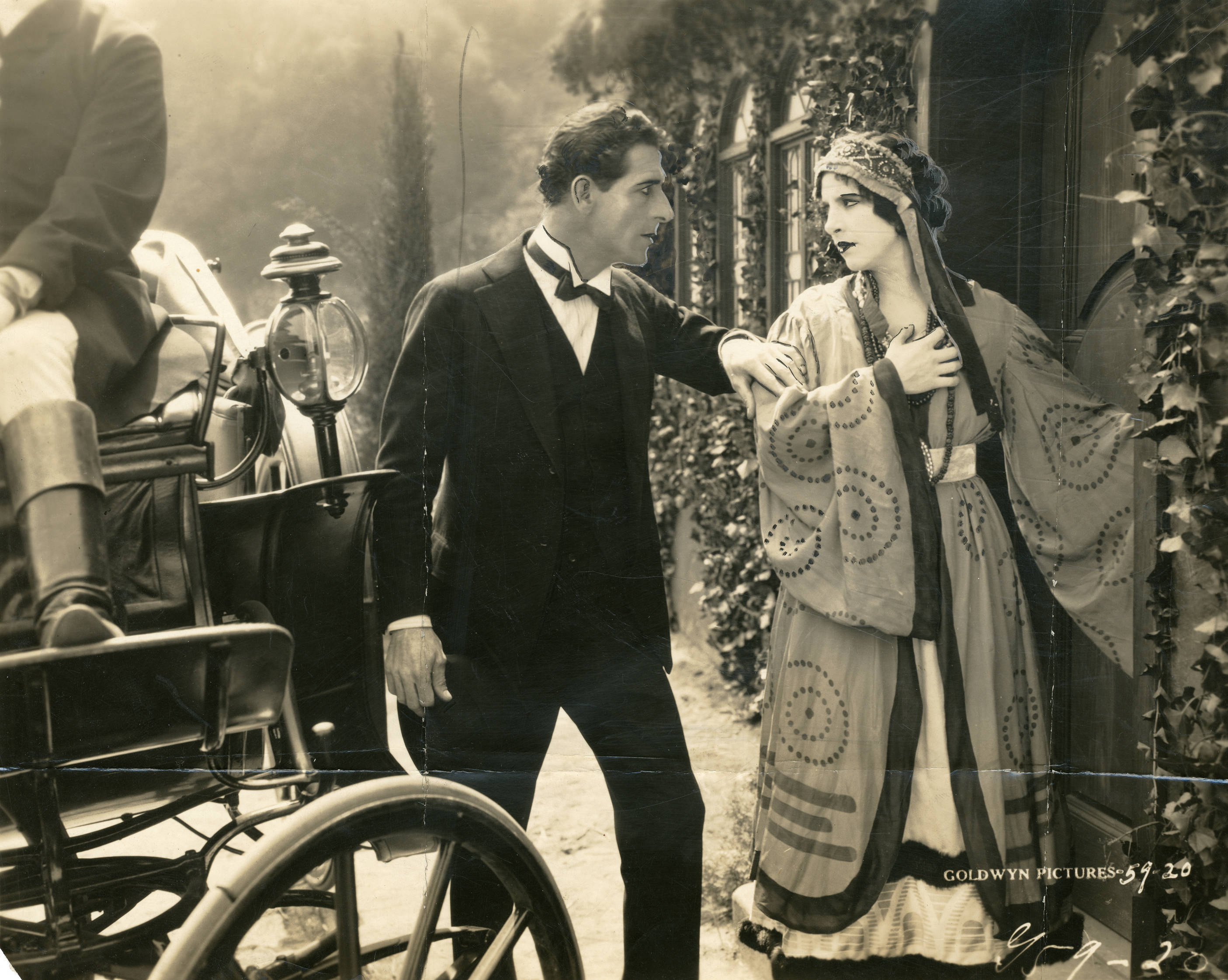 Still from the American drama film The World and Its Woman (1919). Subjects: motion pictures, actresses